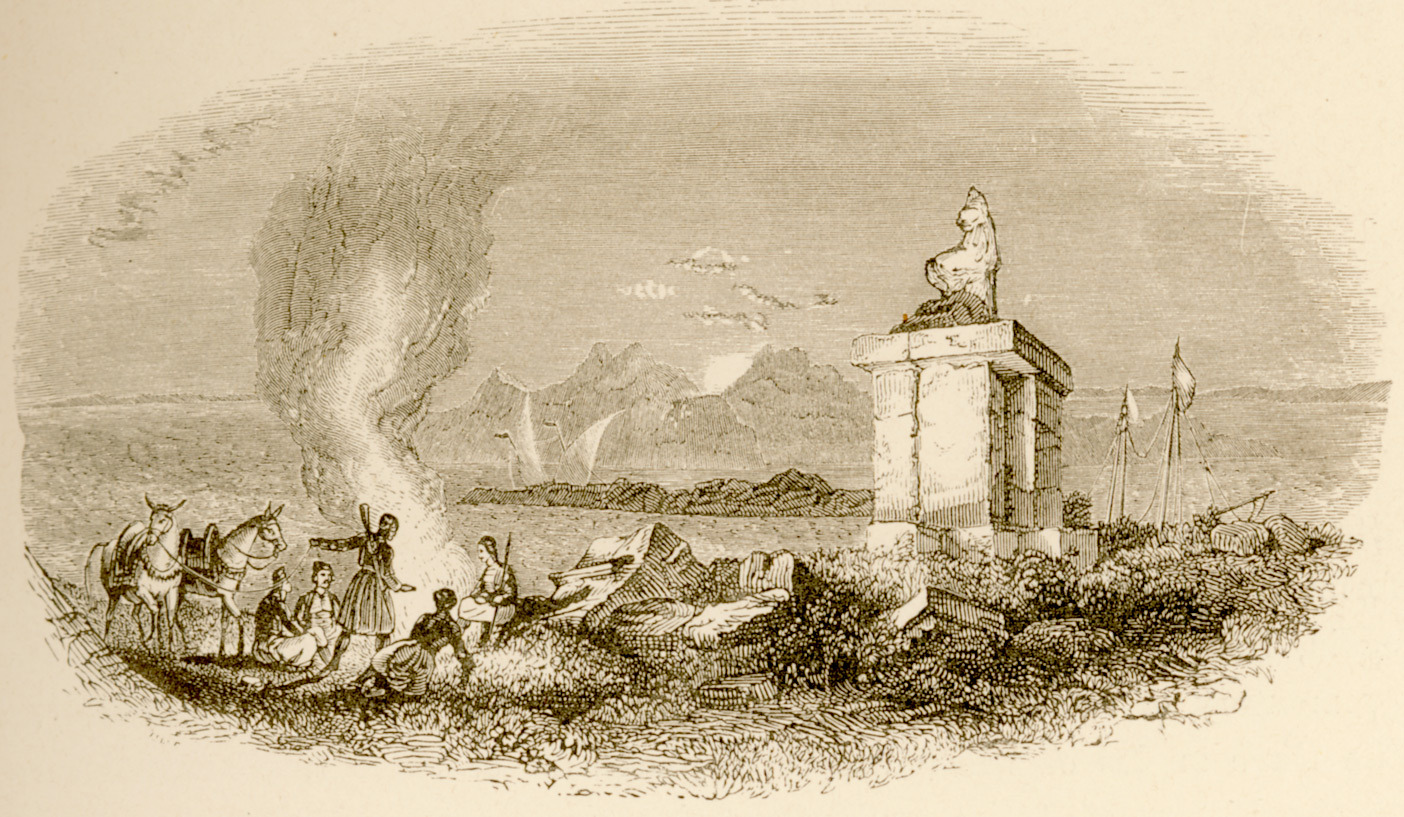 Christopher Wordsworth. Greece Pictorial, Descriptive, & Historical, and a History of the Characteristics of Greek Art, London, John Murray, 1882.